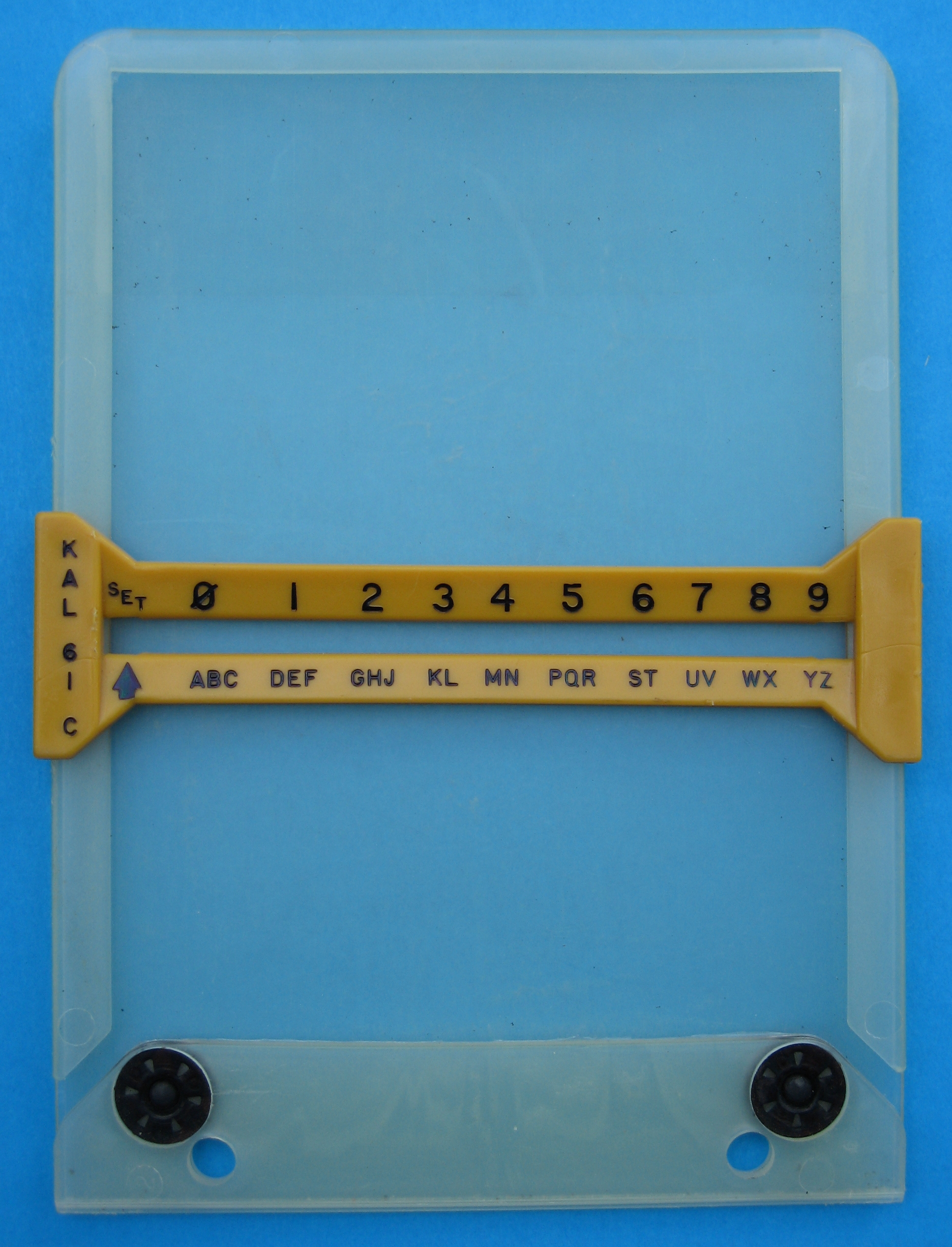 Encryption sheet holder, KAL 61C, used by members of the military for holding AKAK encryption sheets and make using them easier. The system was highly manual and largely became obsolete with the advent of electronic encryption measures. This encryption sheet holder was from circa 1988.